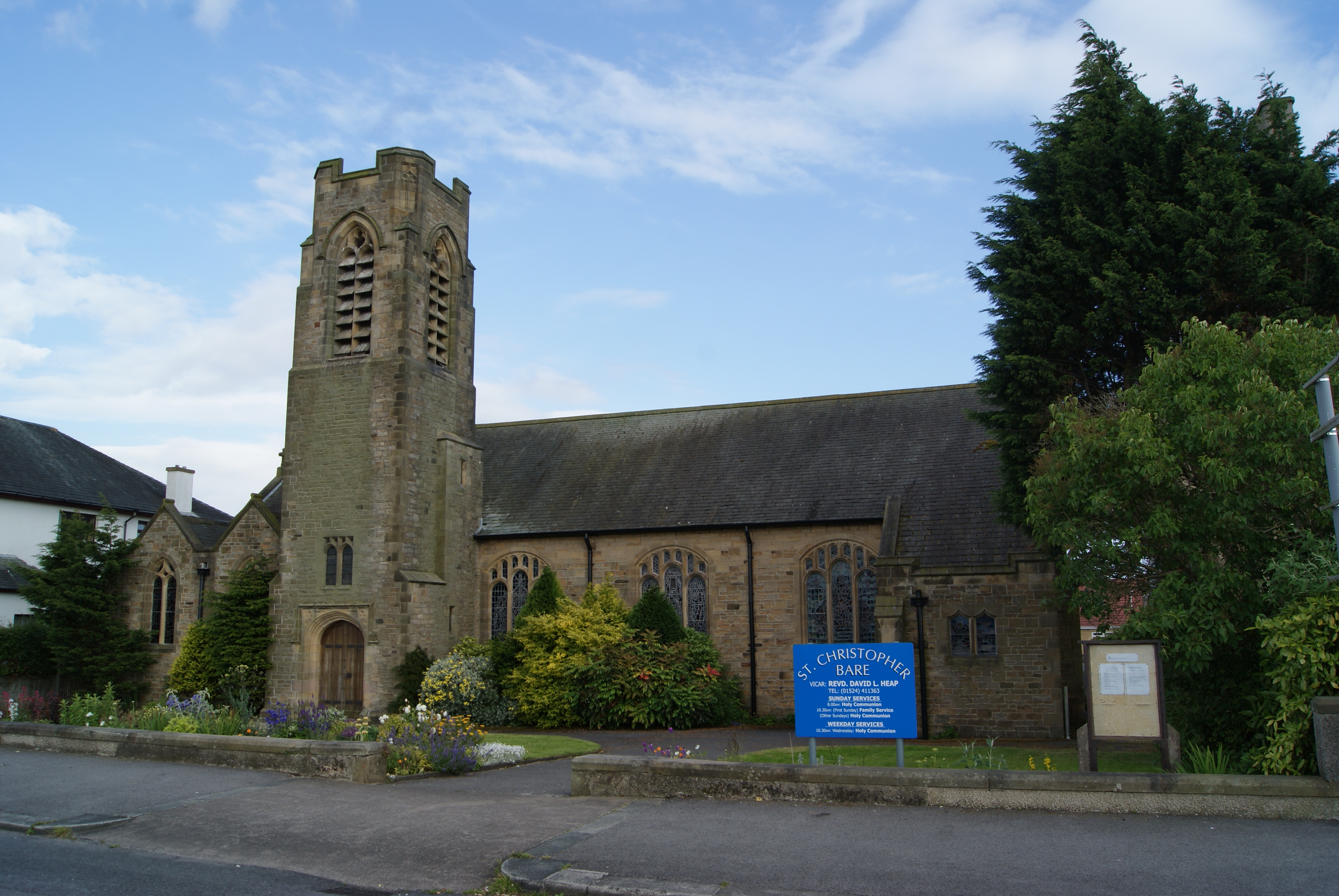 St Christopher's parish church, Bare, Lancashire, seen from the northwest